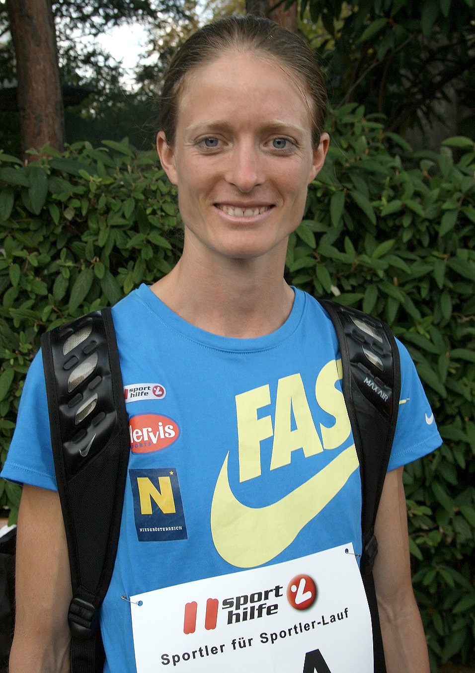 Andrea Mayr (Vienna 2011).